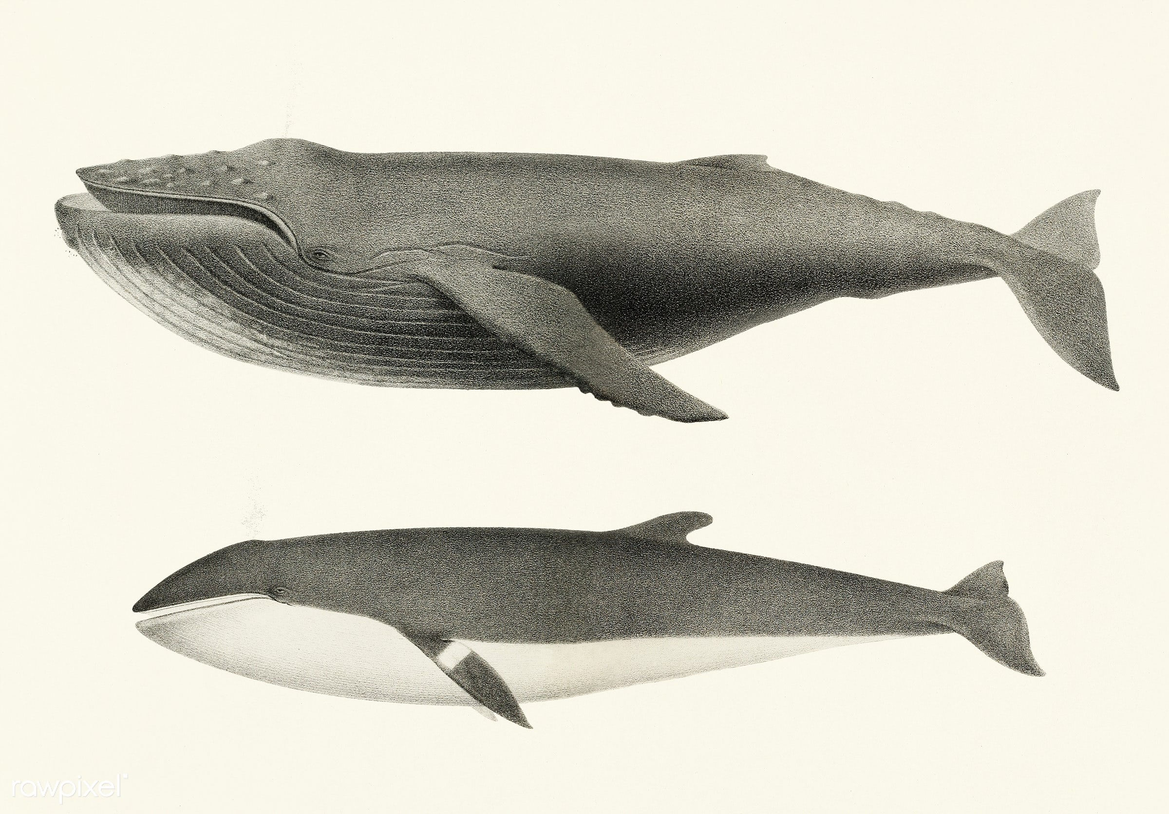 1. Humpback whale (Megaptera versabilis) 2. Minke whale (Balaenoptera davidsoni) from Natural history of the cetaceans and other marine mammals of the western coast of North America